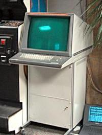 Tektronix 4014 Photo by Jim Rees Dec 2001